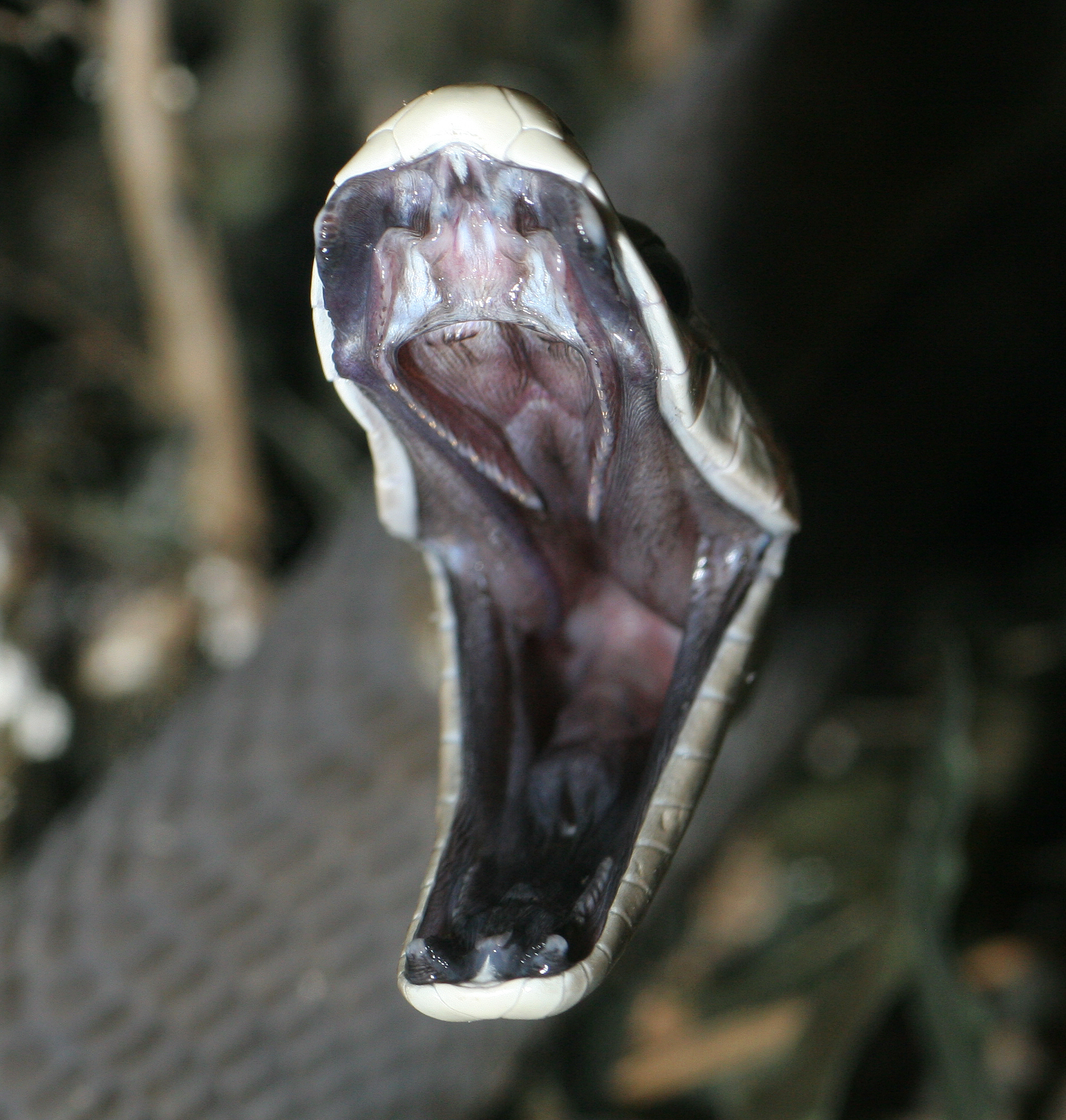 A black mamba striking and displaying the black colouration on the inside of its mouth. ChiShona: Mukati me muromo werovambira